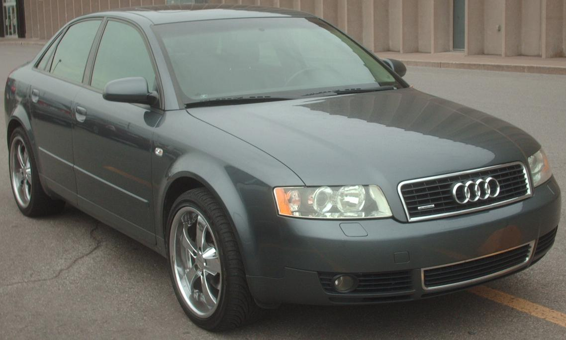 2002-2005 Audi A4 photographed in Montreal, Quebec, Canada.